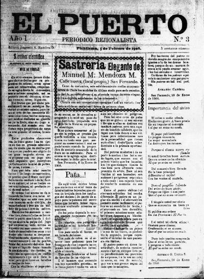 El Puerto, Chilean newspaper, number 3 of 5 february 1908